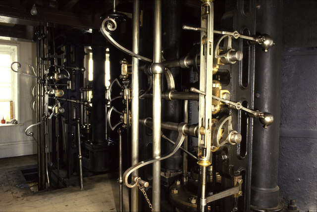 Cornish engines, Crofton Crofton is home to the world's oldest working in situ steam engine - 1812. It is also running on original working load to pump water to the canal's summit level. The world's oldest workable engine is 1779 and is in Thinktank, Birmingham but runs off load in deference to its age and wooden beam.